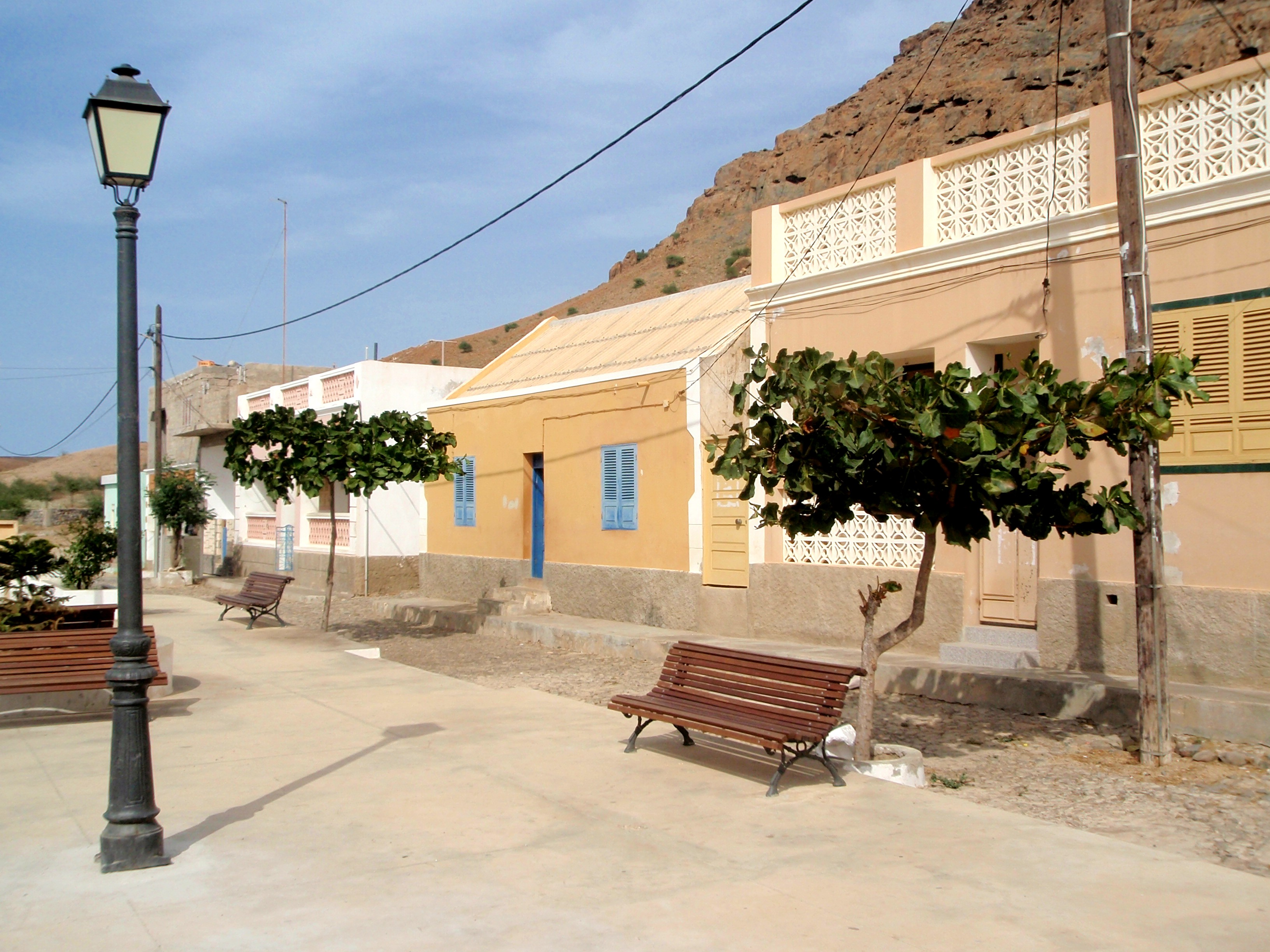 Povoação Velha, Boavista, Cape Verde Islands